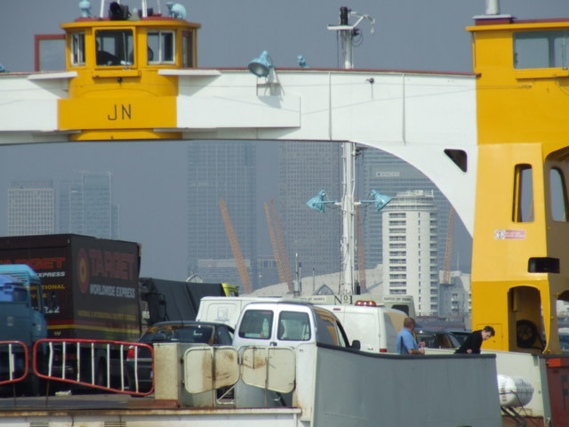 Dome and Canary wharf framed by Woolwich Ferry.